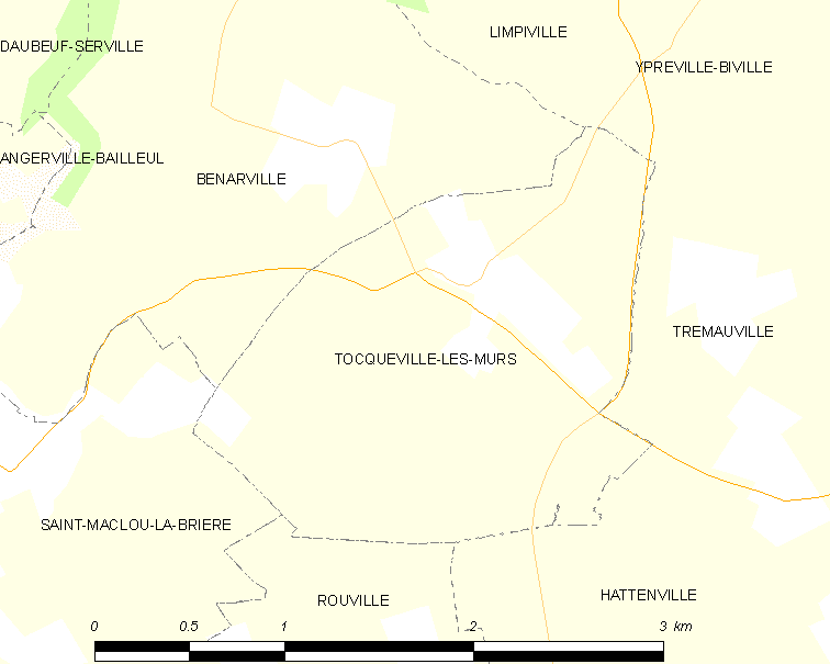 Map of French municipality Tocqueville-les-Murs